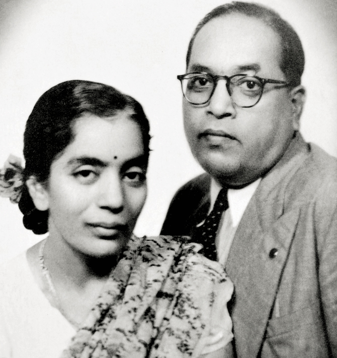 Dr. Babasaheb Ambedkar with his wife Dr. Savita Ambedkar in 1948, after married, Delhi.